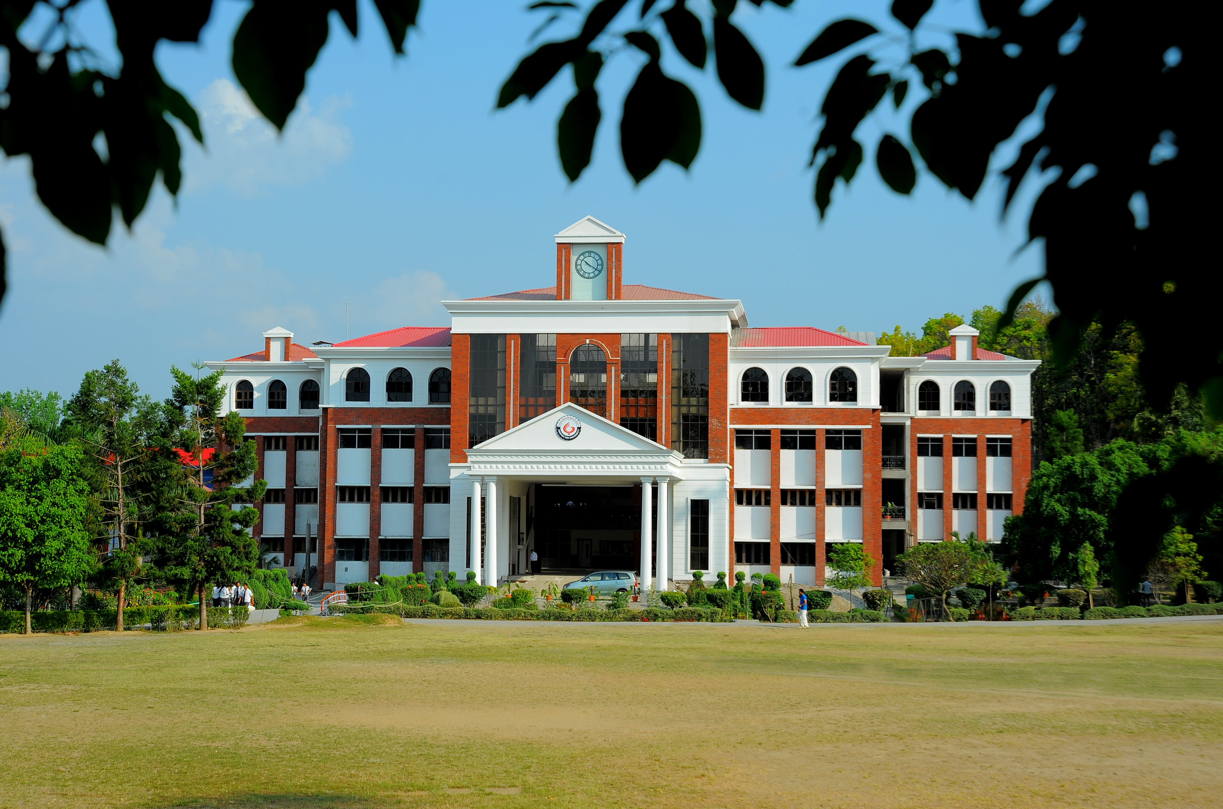 Graphic Era's Main building.